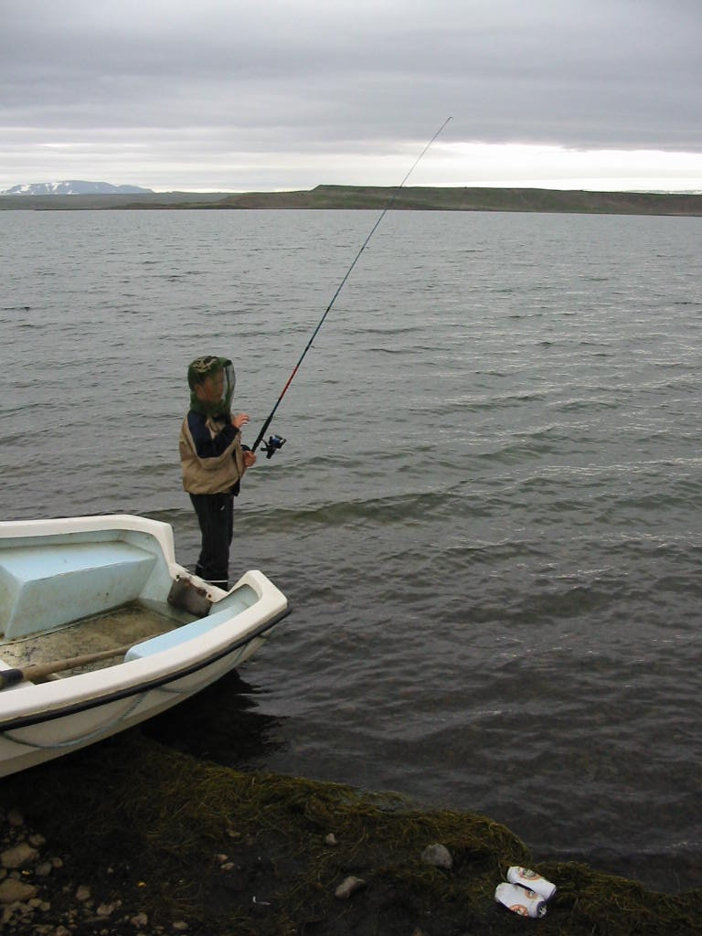 Young man fishina at Arnarvatn Iceland